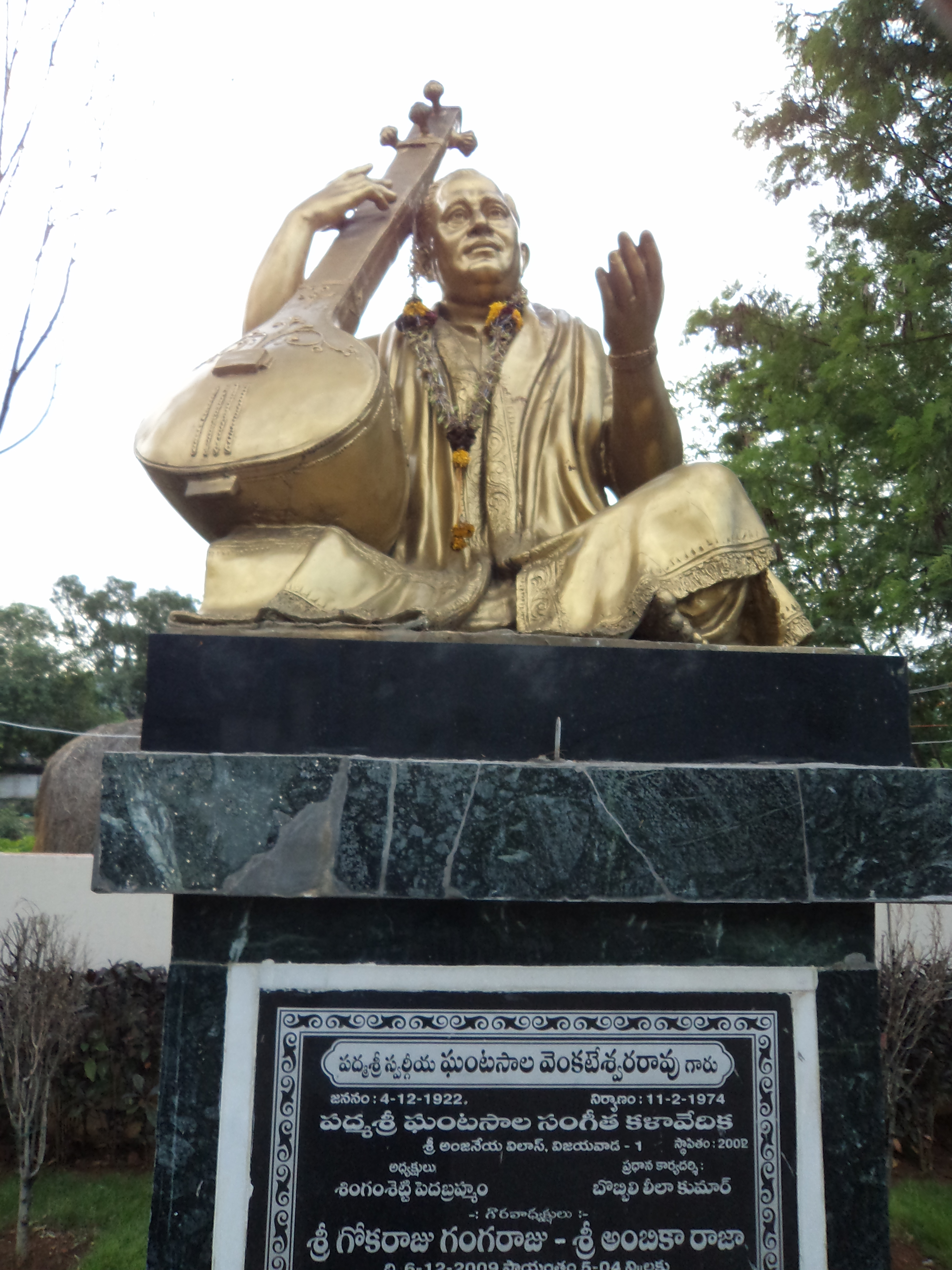 Ghantasala's statue at Tummalapalli Kshetrayya Kalakshetram